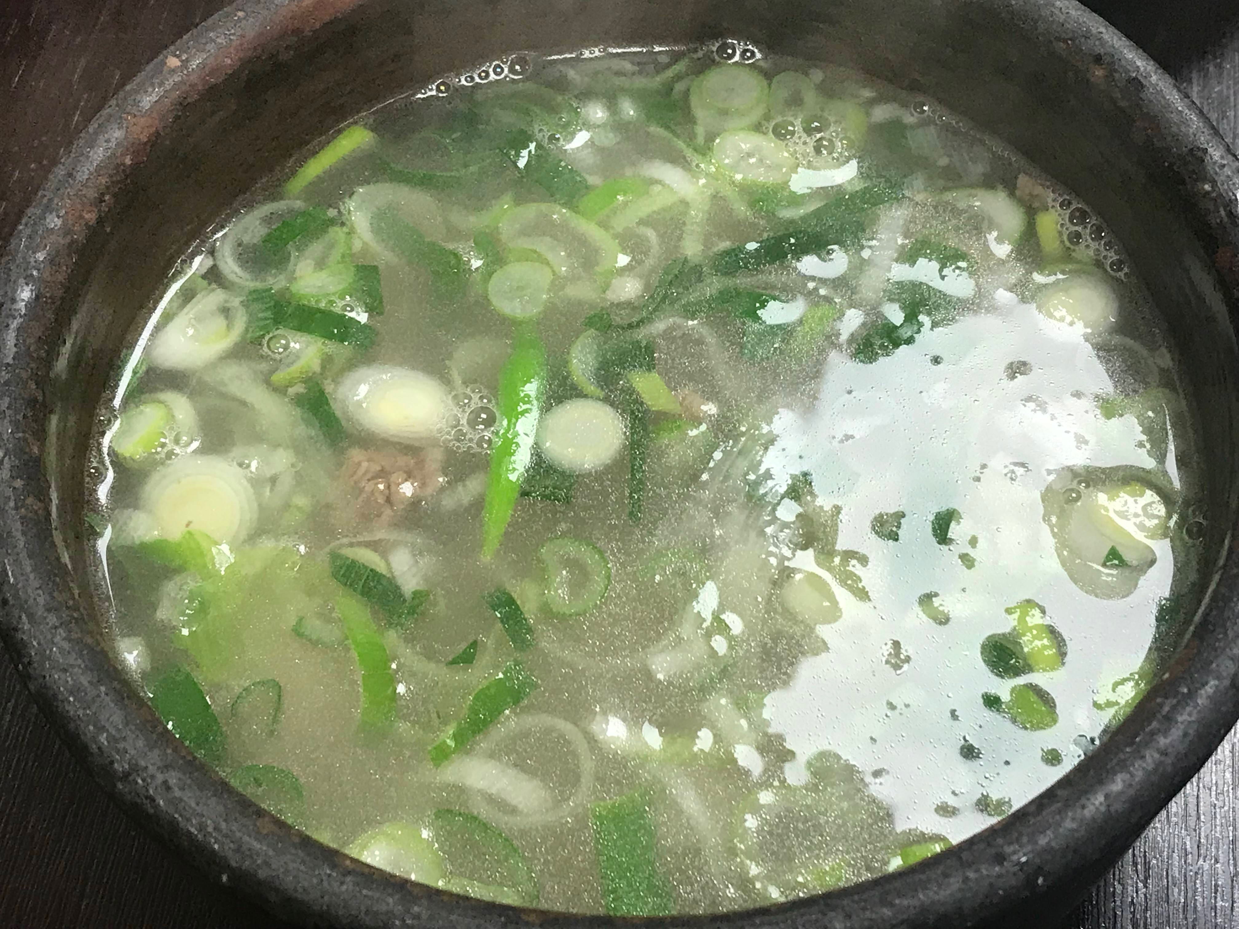 Dogani-tang (beef knee bone soup)